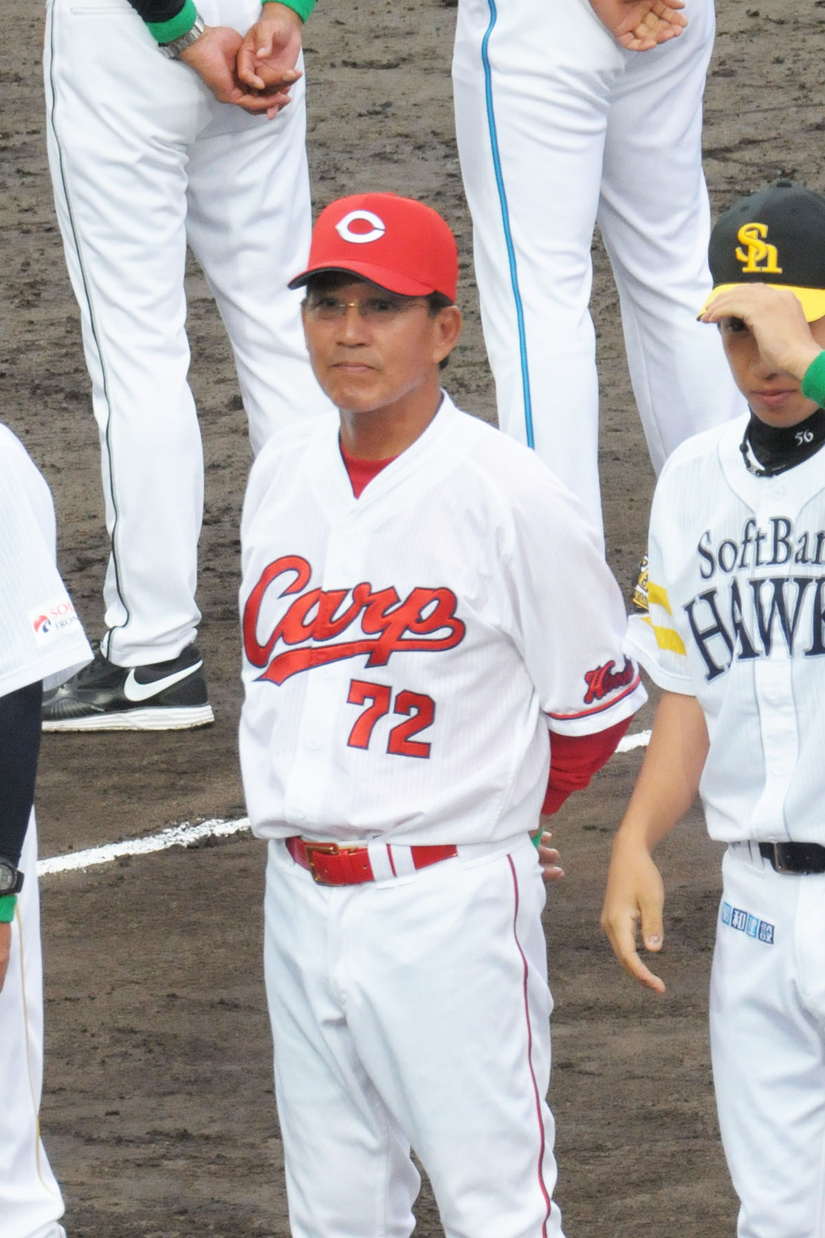 Junzo Uchida, manager of the Hiroshima Toyo Carp farm team, at Akita Prefectural Baseball Stadium.